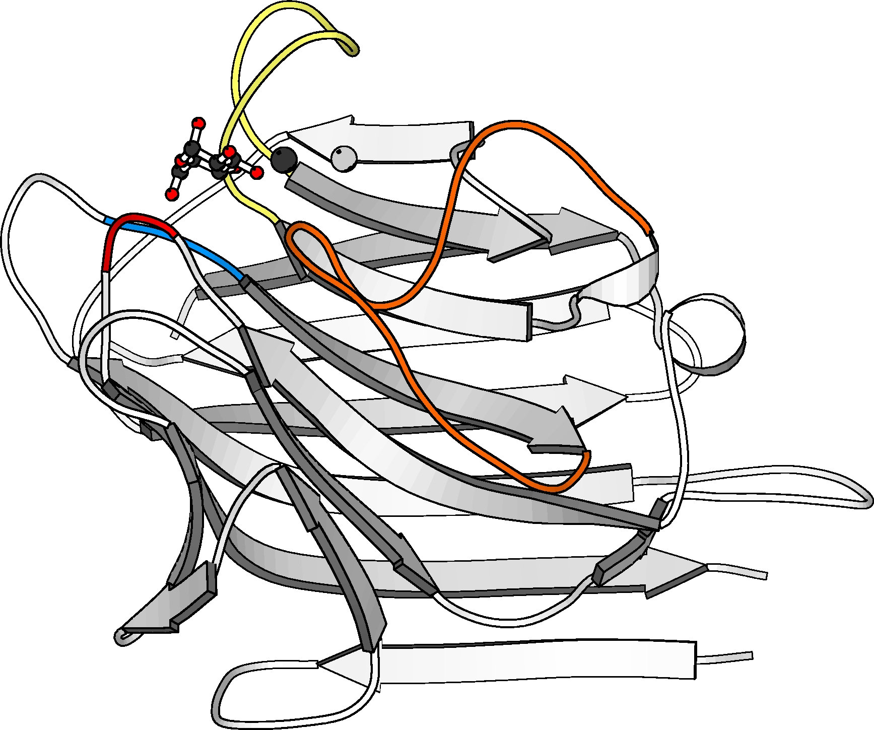 Cartoon representation of a legume lectin monomer (lentil lectin, in complex with glucose)